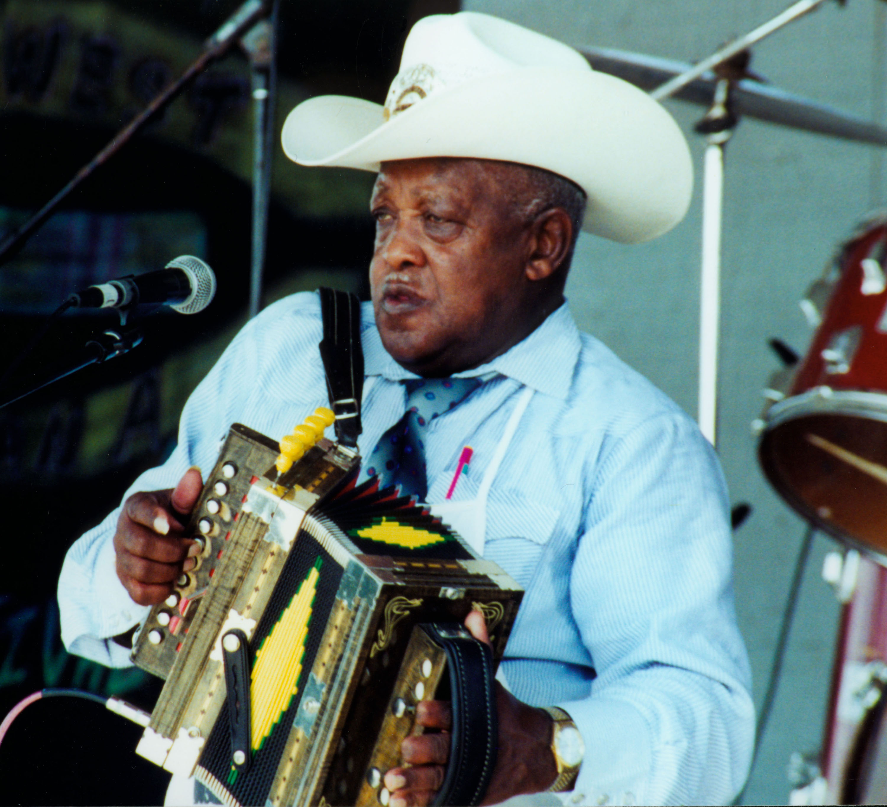 Boozoo Chavis at the 2000 Original Southwest Zydeco Festival in in Plaisance, Louisiana.